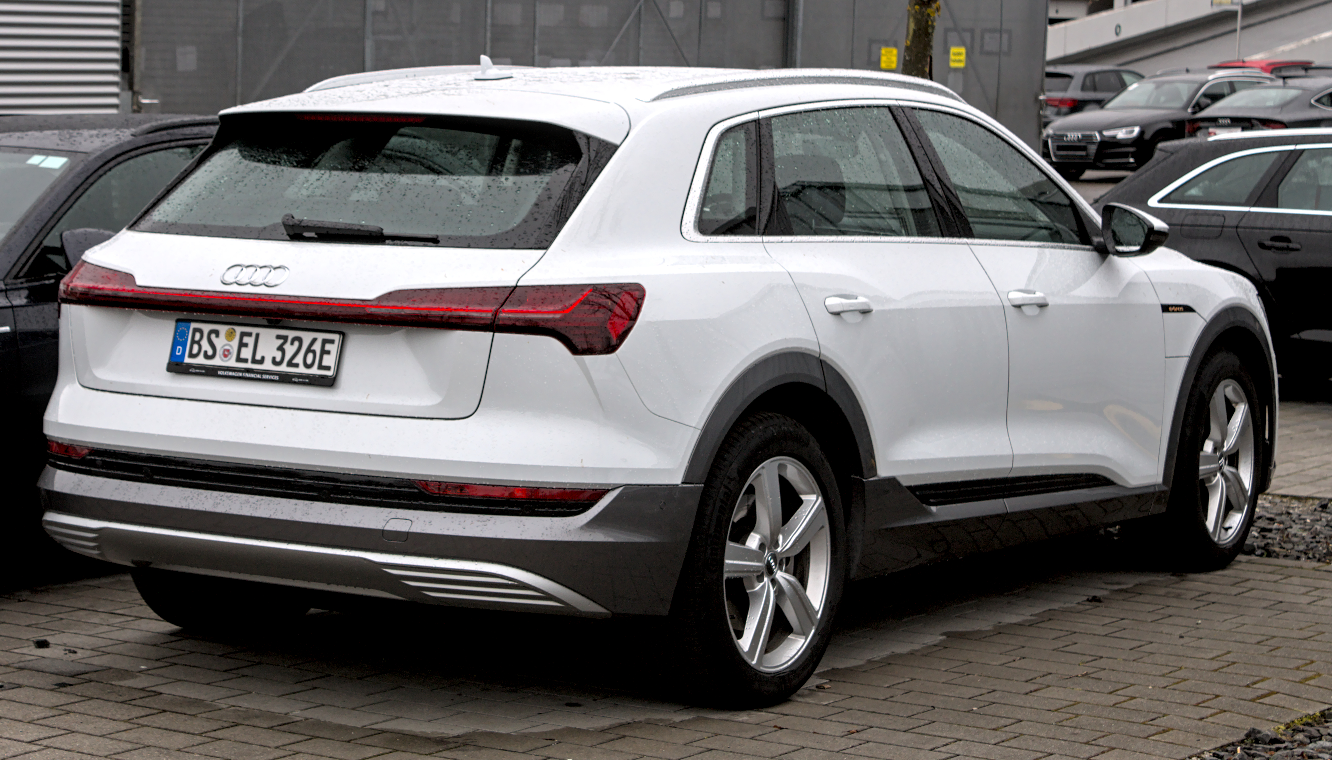 Audi_e-tron in Stuttgart-Vaihingen